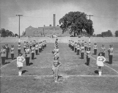 picture from the 1948 Hickman High School yearbook, originally published without copyright now in the public domain of the United States.